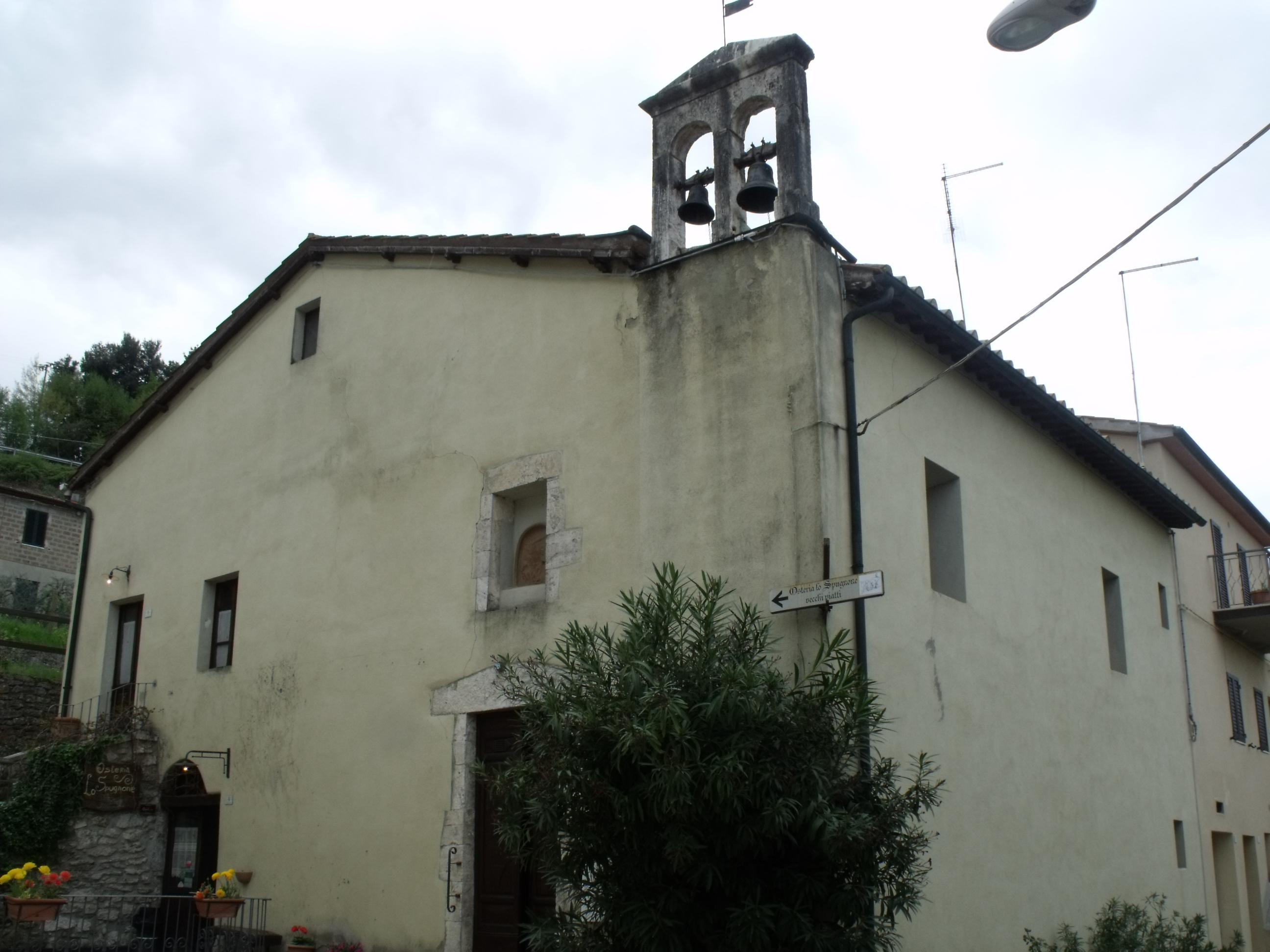 Church (Chiesa) di San Filippo in Bagni San Filippo, hamlet of Castiglione d’Orcia, Val d’Orcia, Province of Siena, Tuscany, Italy